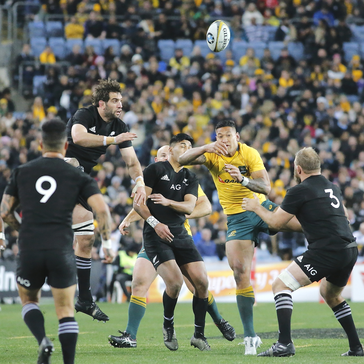 2017.08.19.20.29.18-Folau high ball-0002 2017 Rugby Championship, Bledisloe 1, Australia vs New Zealand, 19th August, ANZ Stadium, Sydney